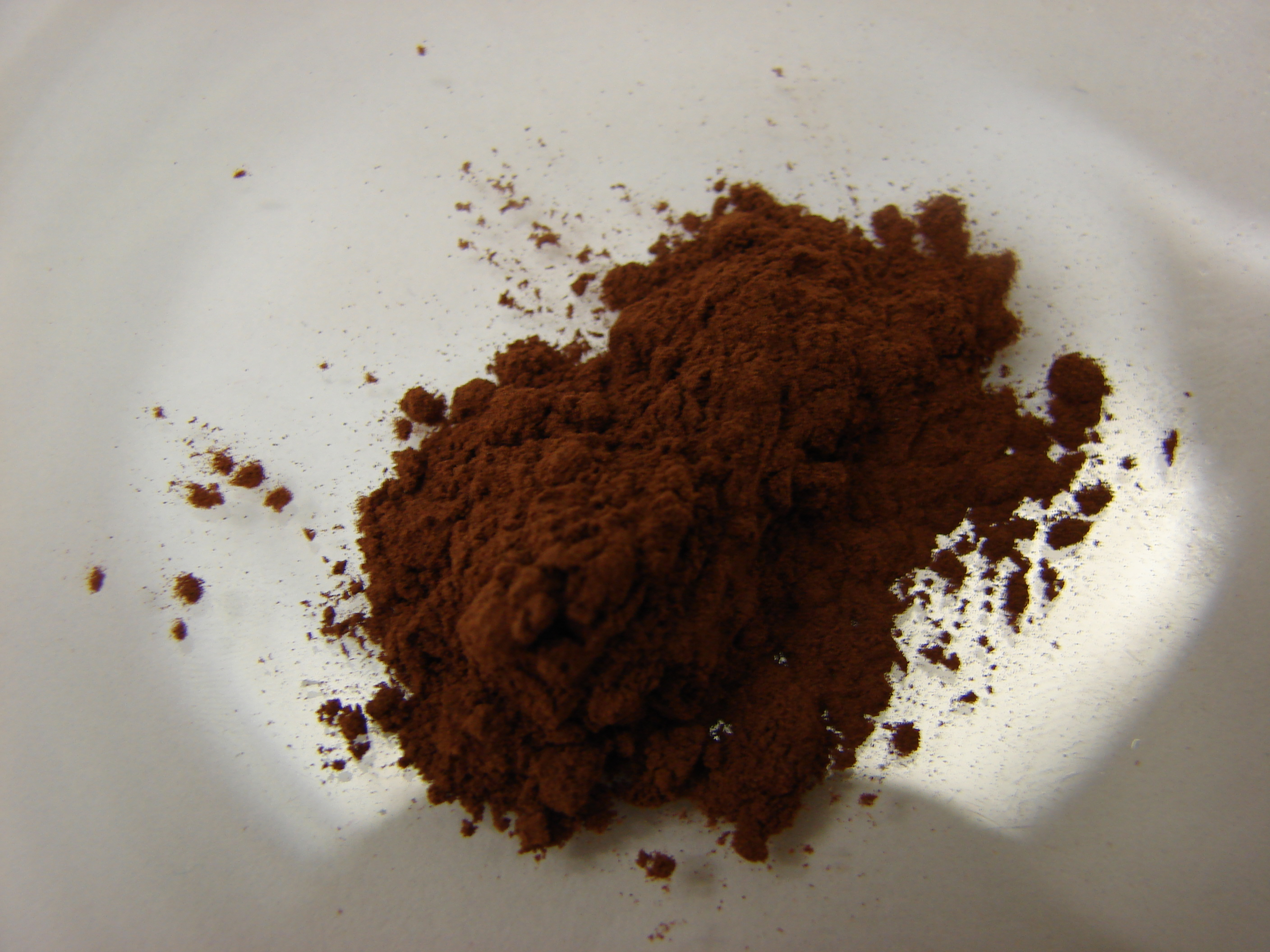 Catechu nigrum, Acacia catechu